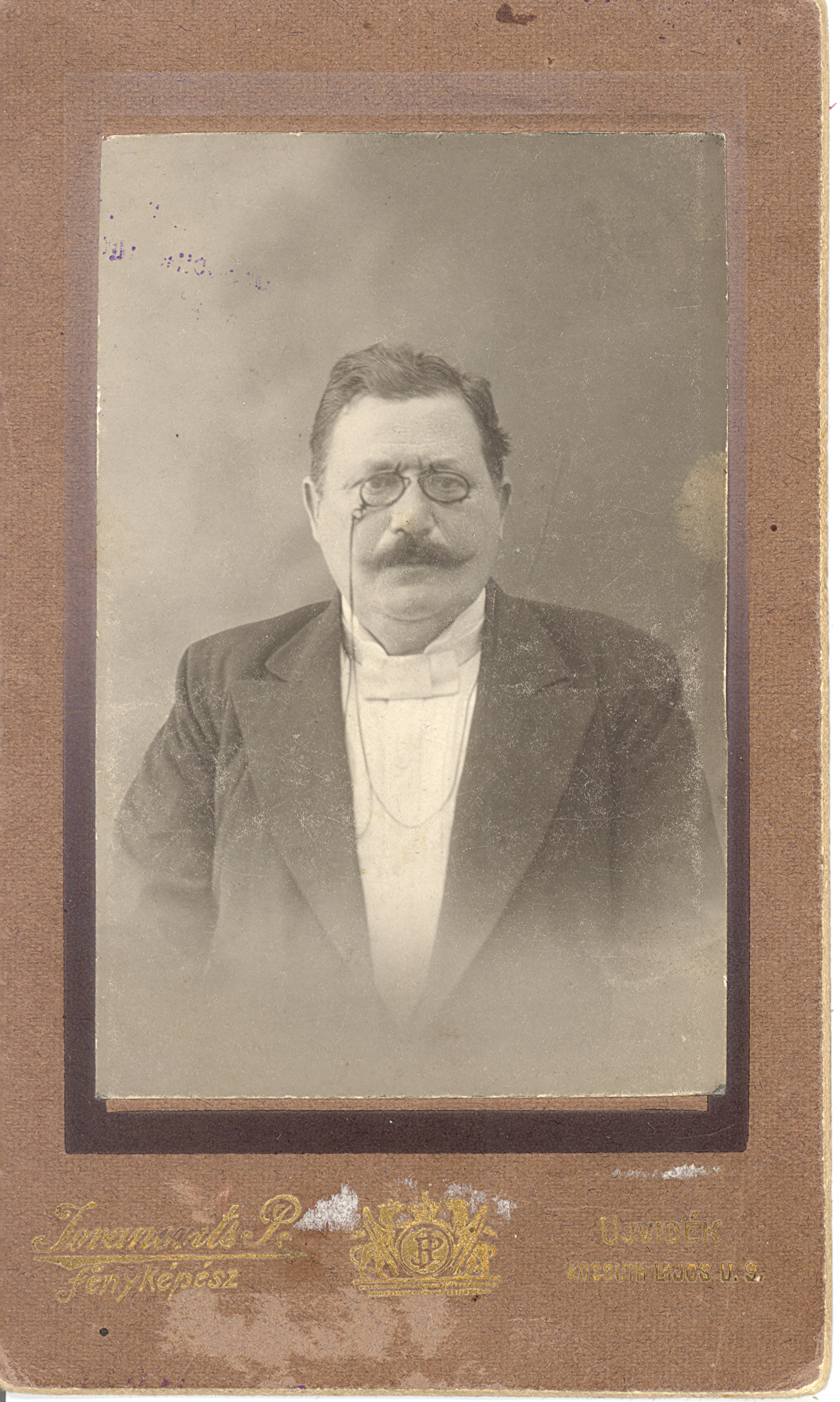 Milan Jovanović "Baba", famous professor of Gymnasium Jovan Jovanović Zmaj